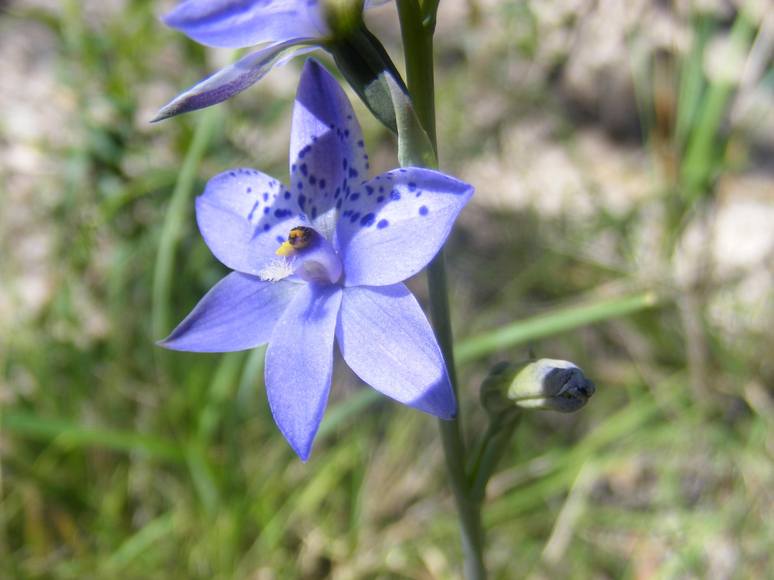 Australian orchid, the Spotted Sun Orchid (Thelymitra ixioides)